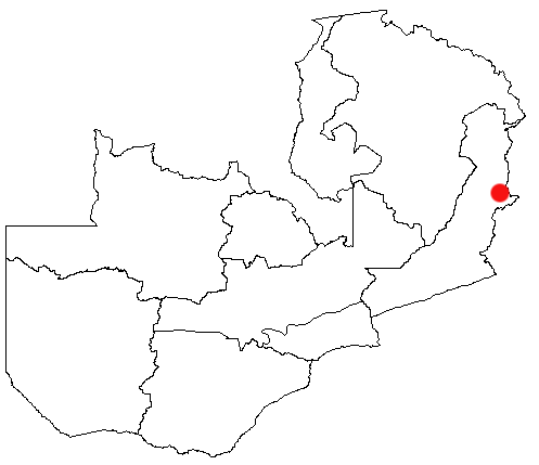 Lundazi, Zambia Location Map; created with the GIMP.